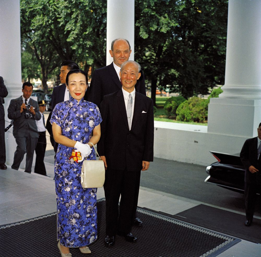 Luncheon in honor of Chen Cheng, Vice President of the Republic of China. (L – R): Tan Xiang, wife of Vice President Chen; Vice President Chen; Secretary of State Dean Rusk; others unidentified. North Portico, White House, Washington, D.C.